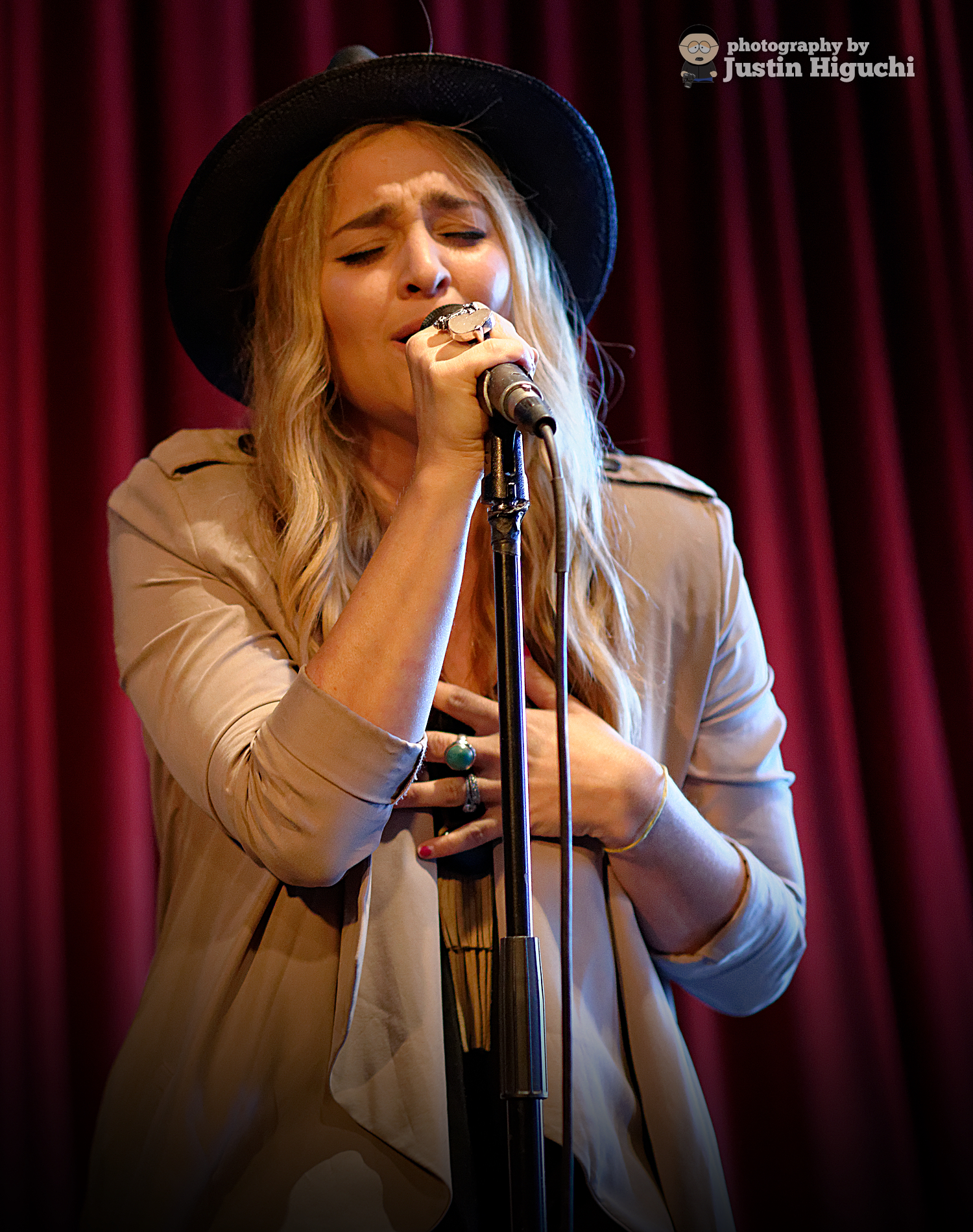 Alisan Porter performing live at Room 5 Lounge in Los Angeles California on Friday June 26th, 2015.